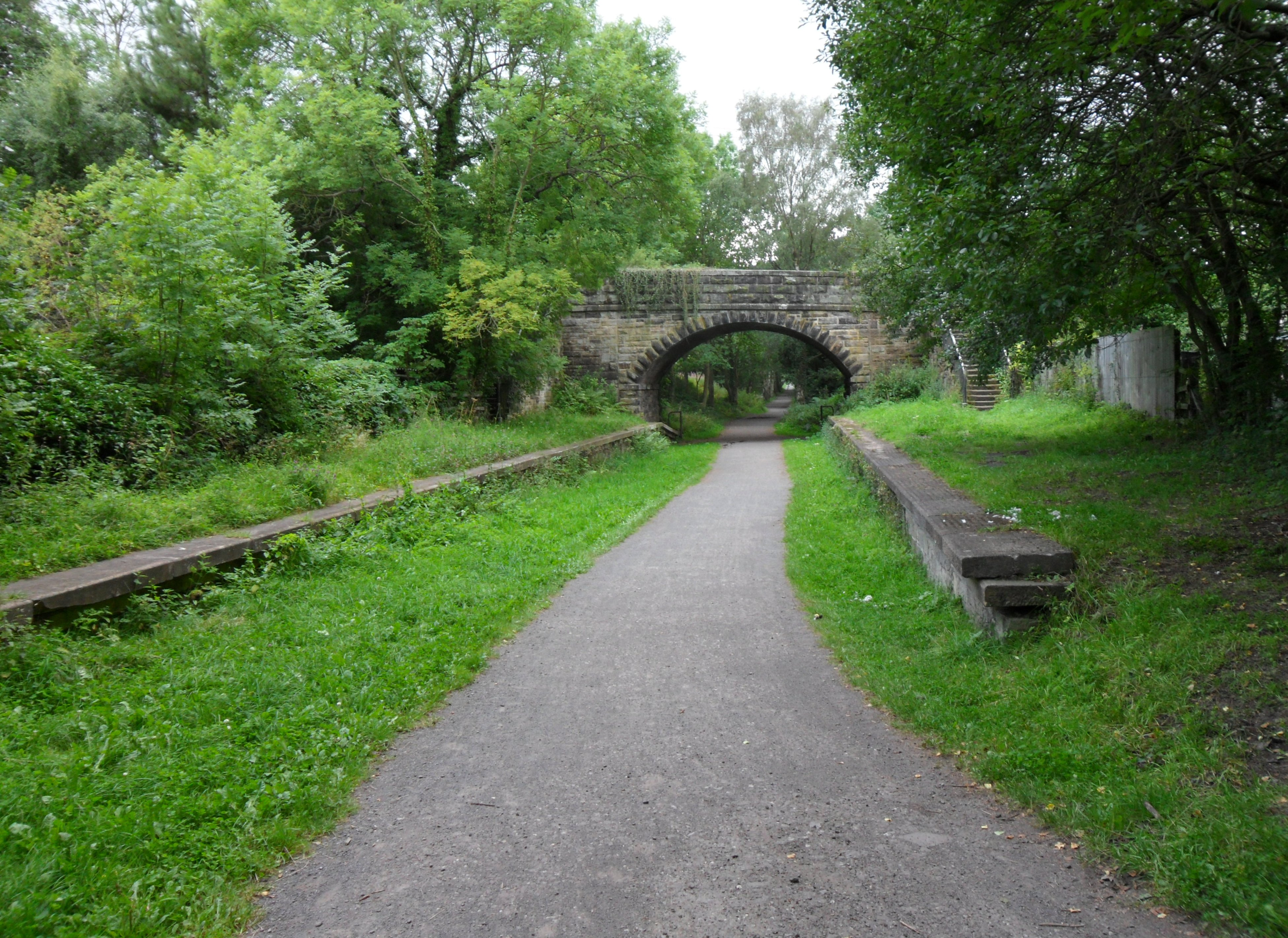 Former Lintz Green Railway Station. Opened by the North Eastern Railway in 1867, the station closed in 1953. The station is the scene of the unsolved murder of its station master in 1911.